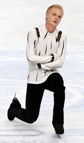 Adrian Schultheiss at the 2010 World Championships.